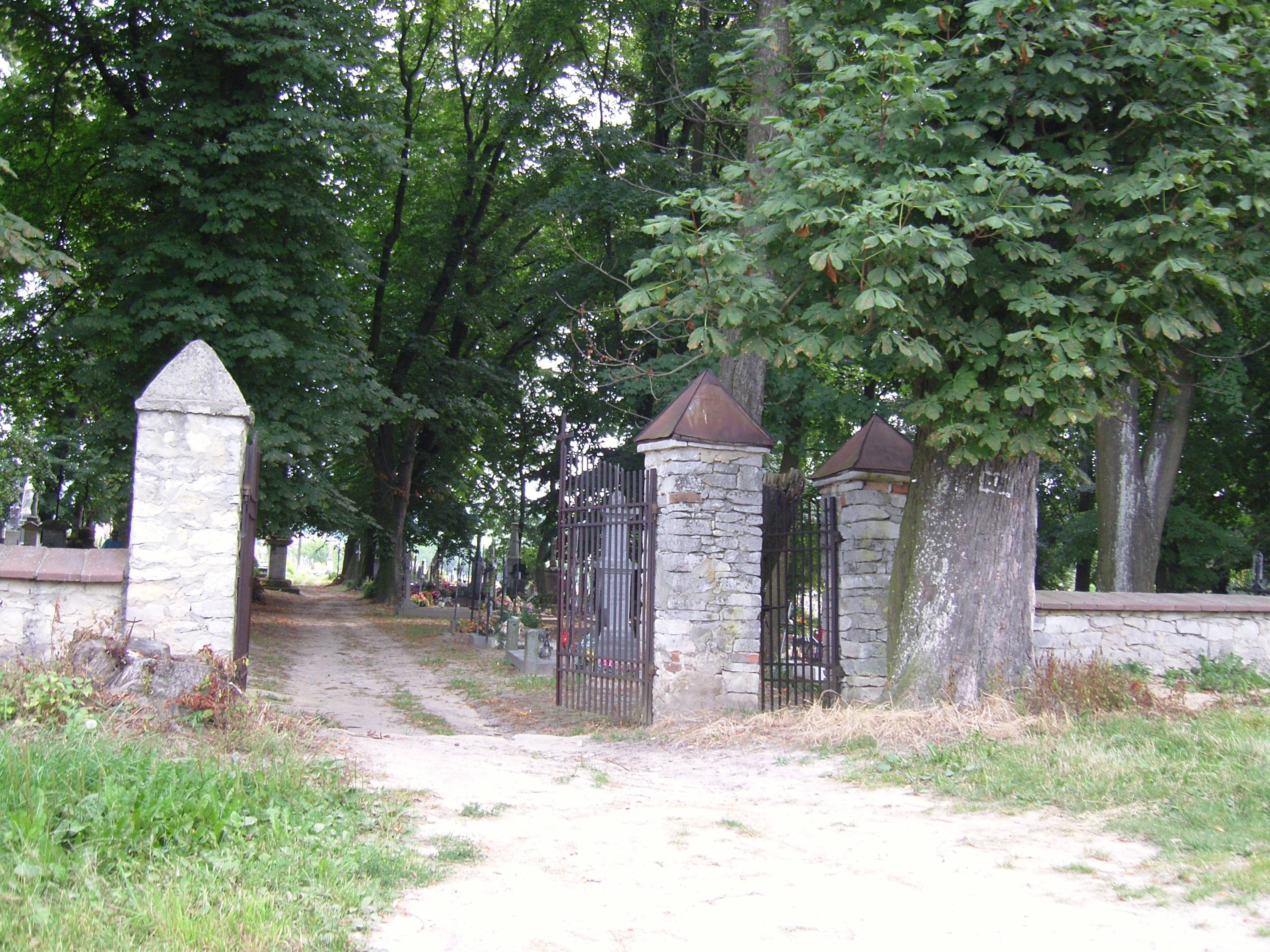 Roman Catholic cemetery in Radzięcin, Poland